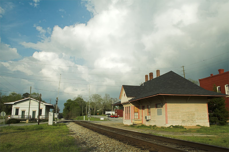 The railway depot in Grantville, Georgia, United States